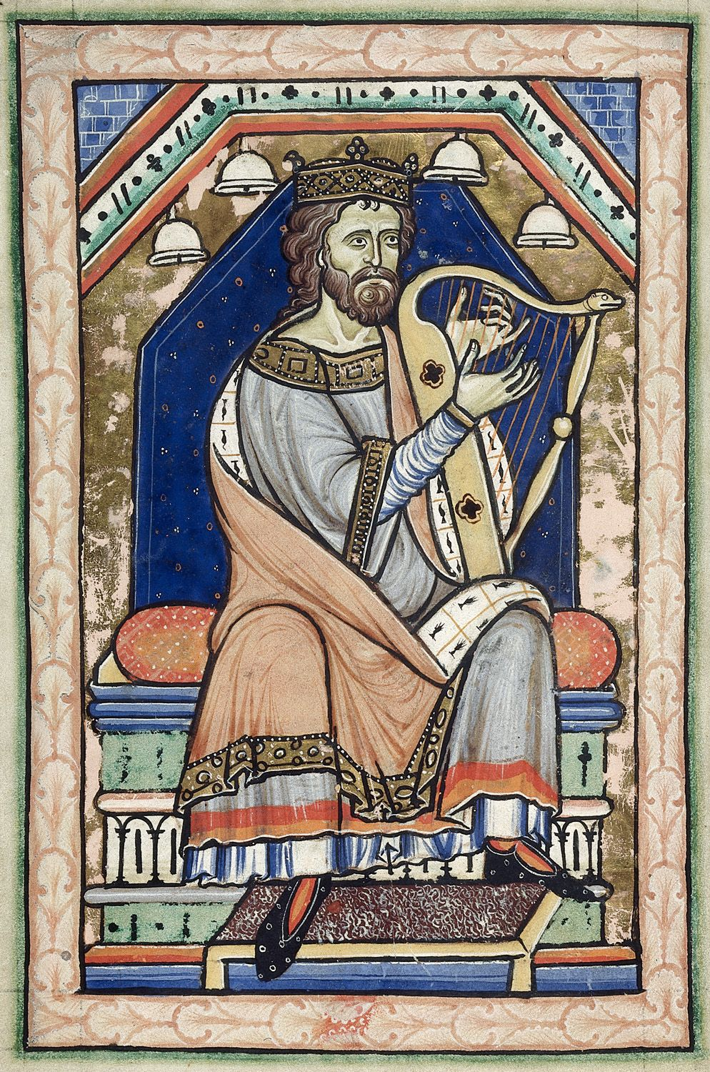 David playing the harp. From the Westminster Psalter, BL Royal MS 2 A xxii f. 14v. Held and digitised by the British Library.